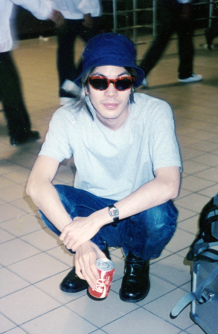 James Iha in Bangkok, Thailand